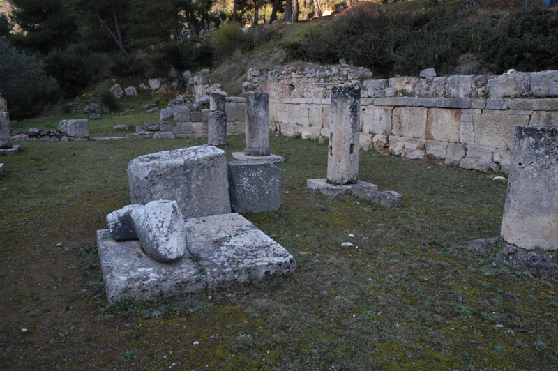 J. M. Harrington, personal digital image